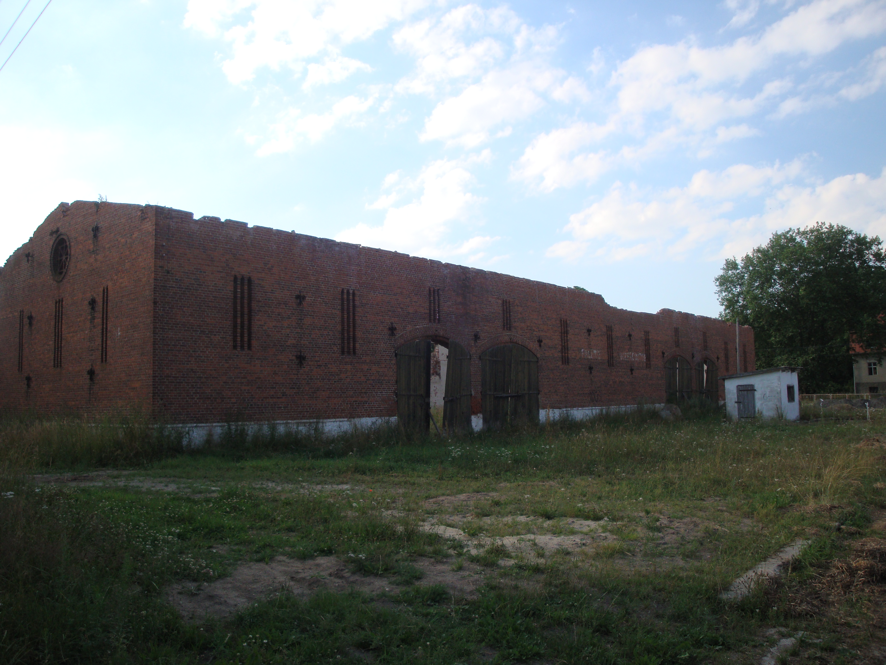 Skórzyno-village in Pomeranian Voivodeship, Poland